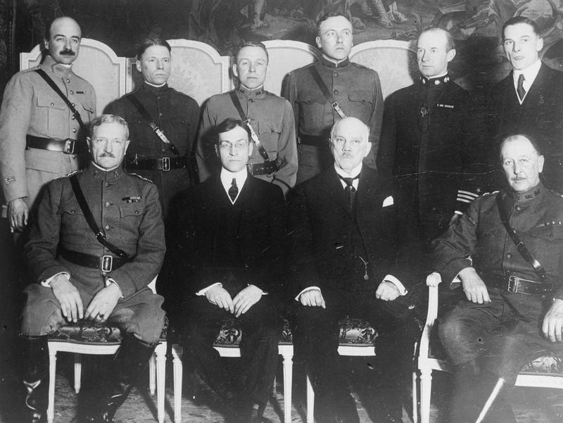 Secrectary of Baker With Officers during a Visit To Paris Secretary Baker, USA, and party in Paris. Top row, left to right: Capt. De Marches, French Army; Col. Carl Boyd, Chief of Staff; Lt Col Brett; Col Conner; Comdr Connor, Commander White, US Navy; Ralph A Hayes. Front row: General Pershing; Secretary Baker; Ambassador Sharp and Major General Black, Chief of the US Engineers.